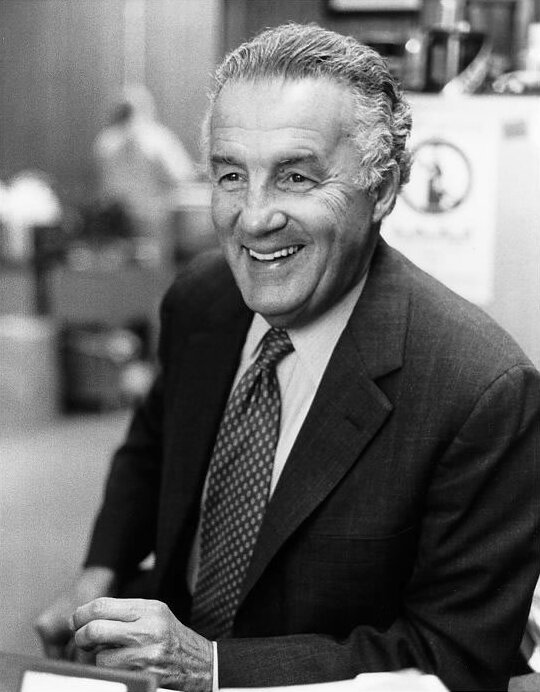 Paul Sarbanes, former U.S. Senator.